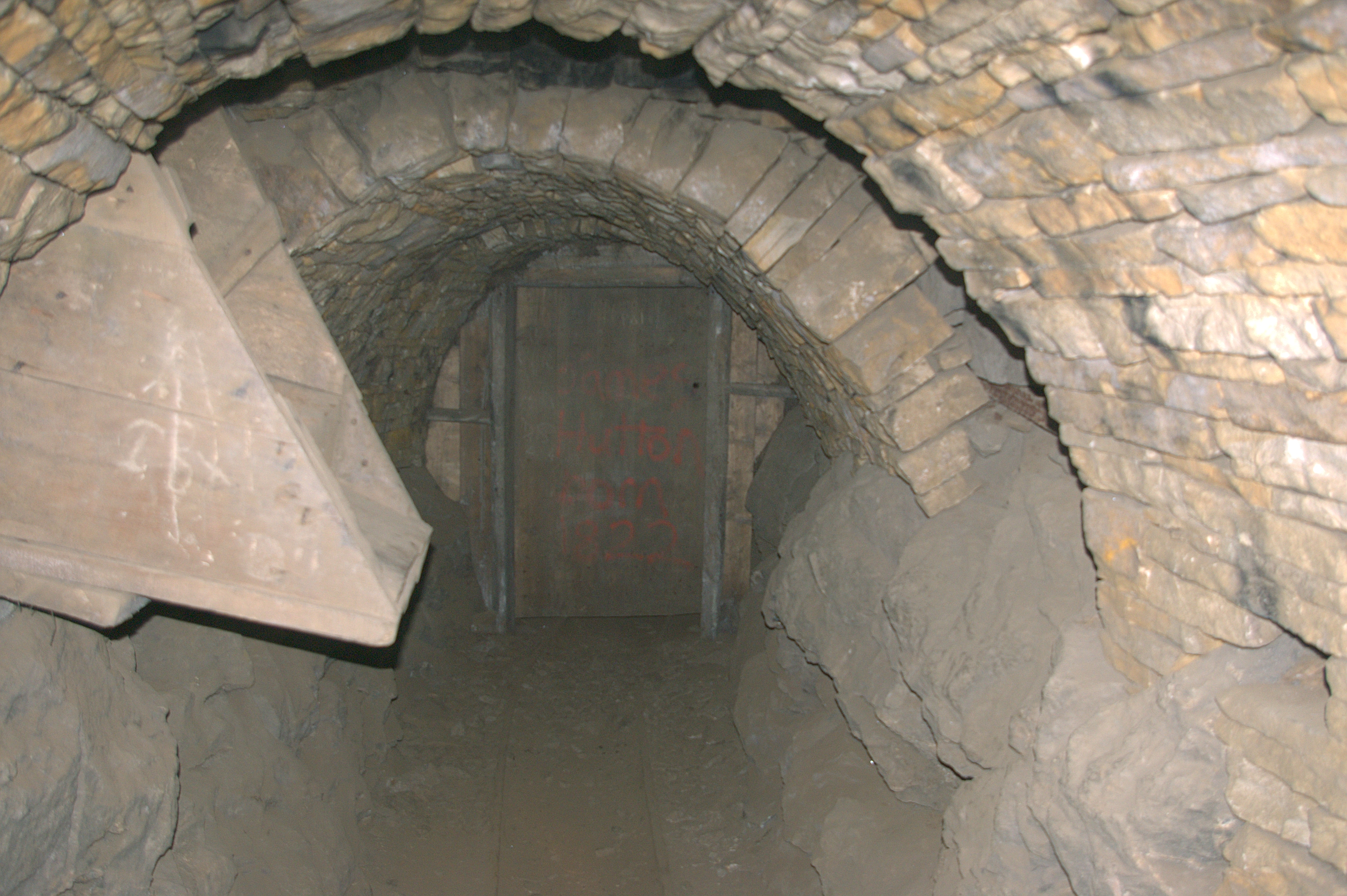 Ventilation door and hopper in Smallcleugh Mine, Nenthead